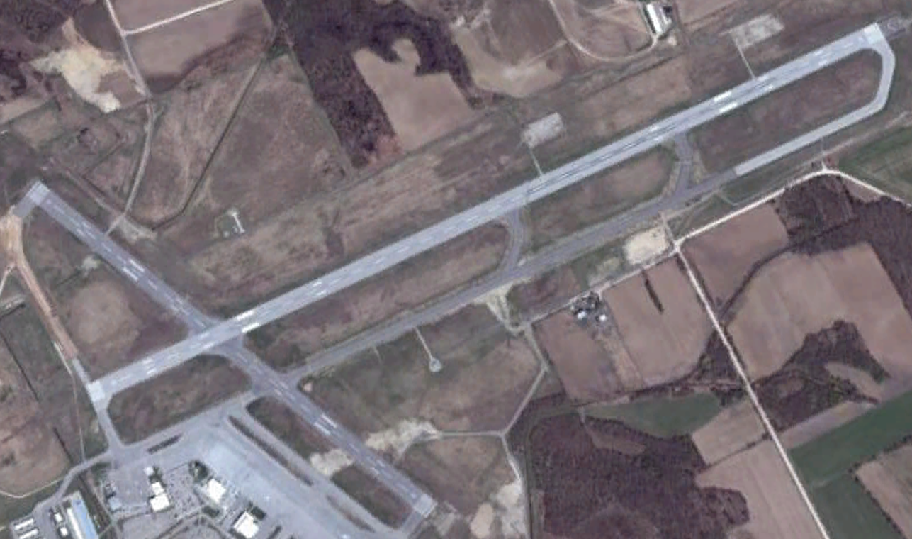 Waterloo International Airport near Breslau, in Woolwich Township, Waterloo Region, Ontario, Canada.